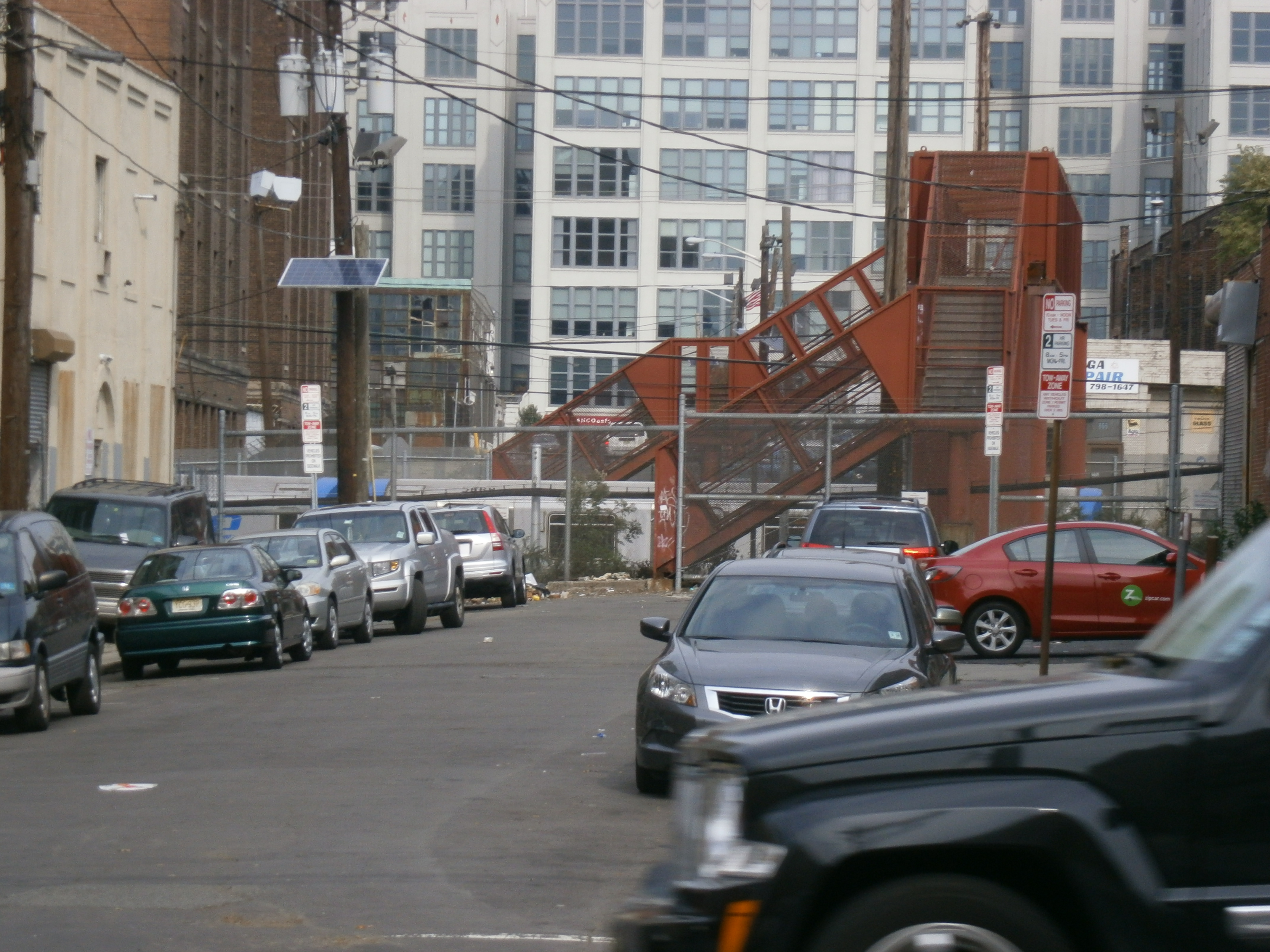 Bridge over PATH line in Marion Section of Jersey City